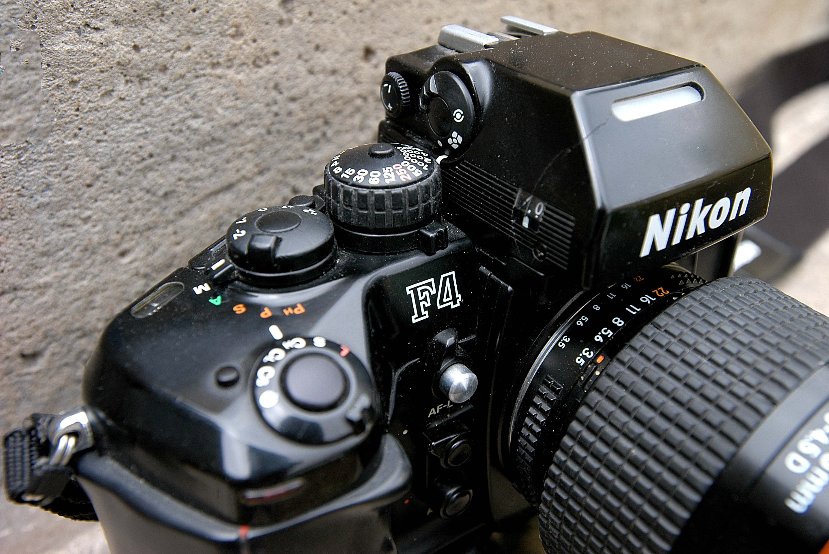 Nikon F4 details